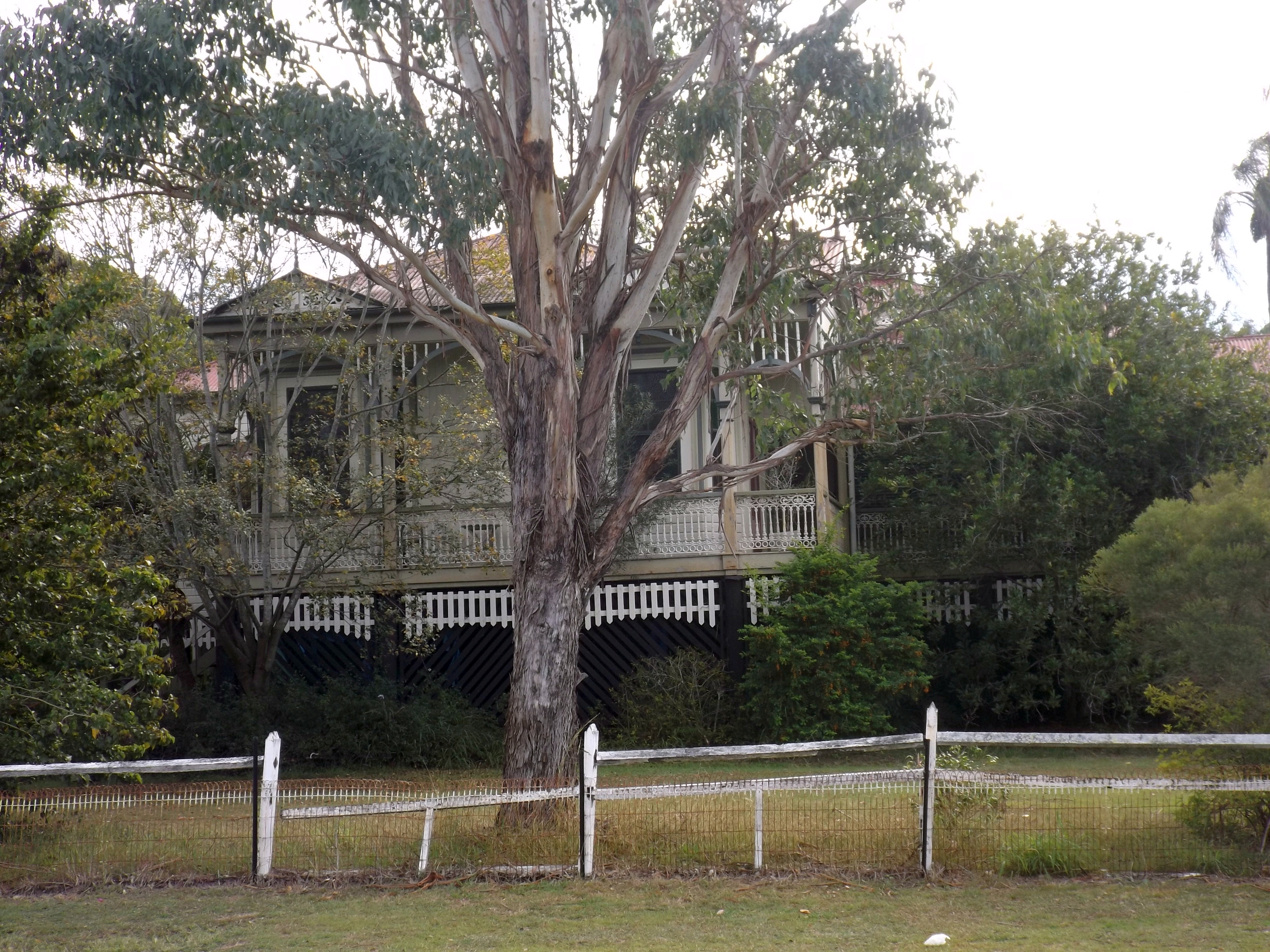 Photo of Glendalough at Rosewood, Ipswich, Queensland, Australia.